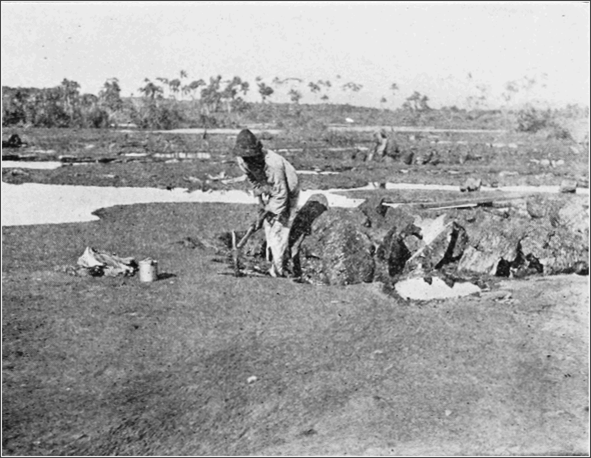 Flaking out the pitch